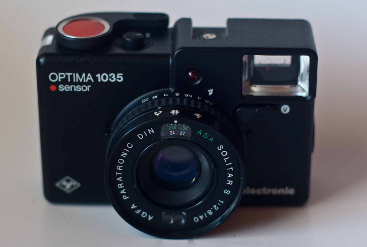 Compact scale-focus 35mm camera. It's slightly smaller than an Olympus 35RC.